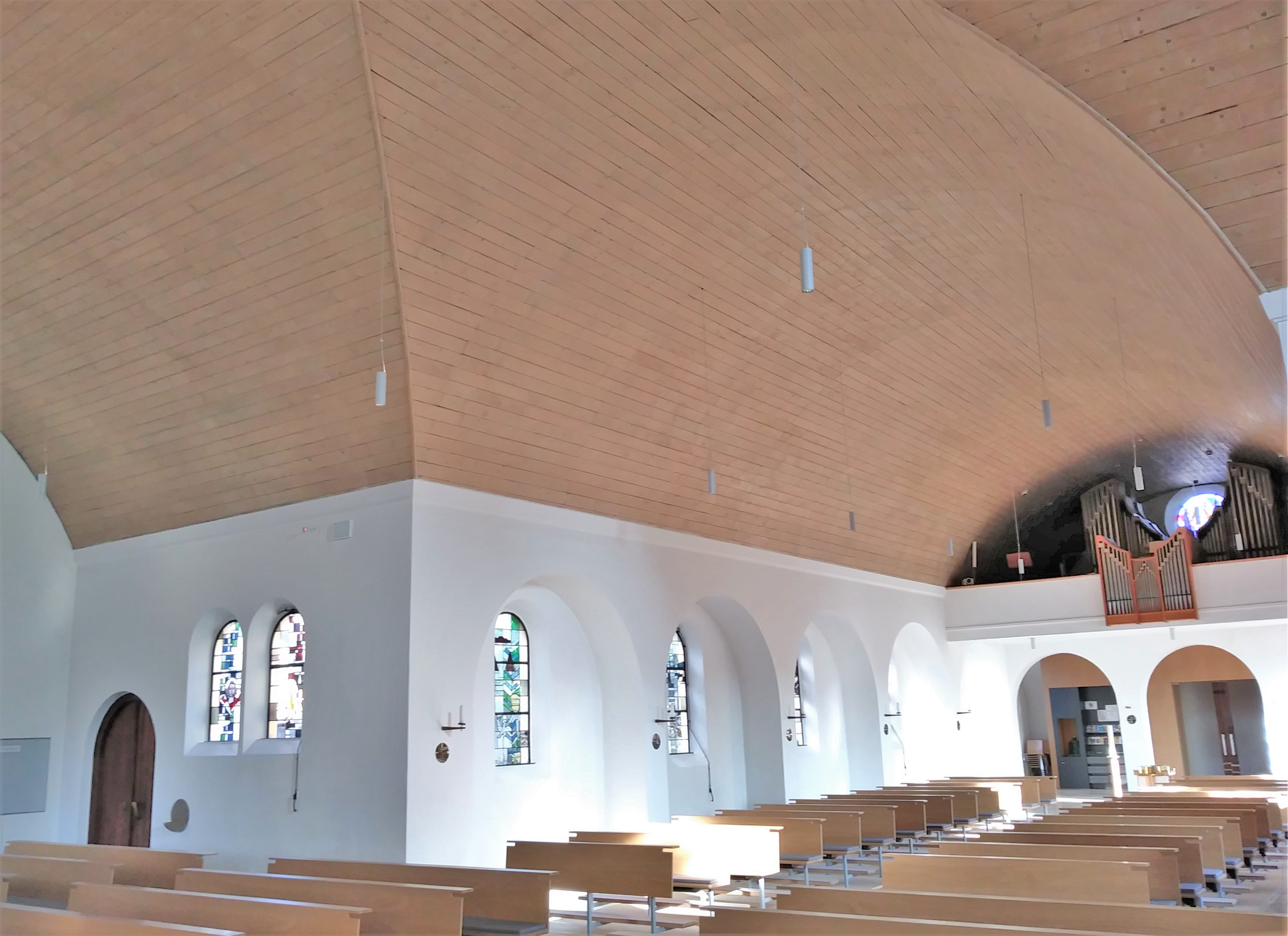 Katholische Kirche St. Alto in Unterhaching